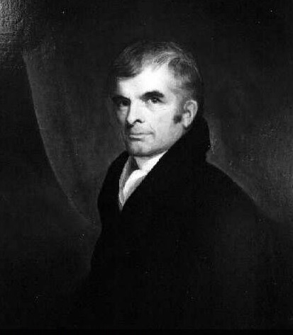 Moss Kent, New York Congressman and Judge